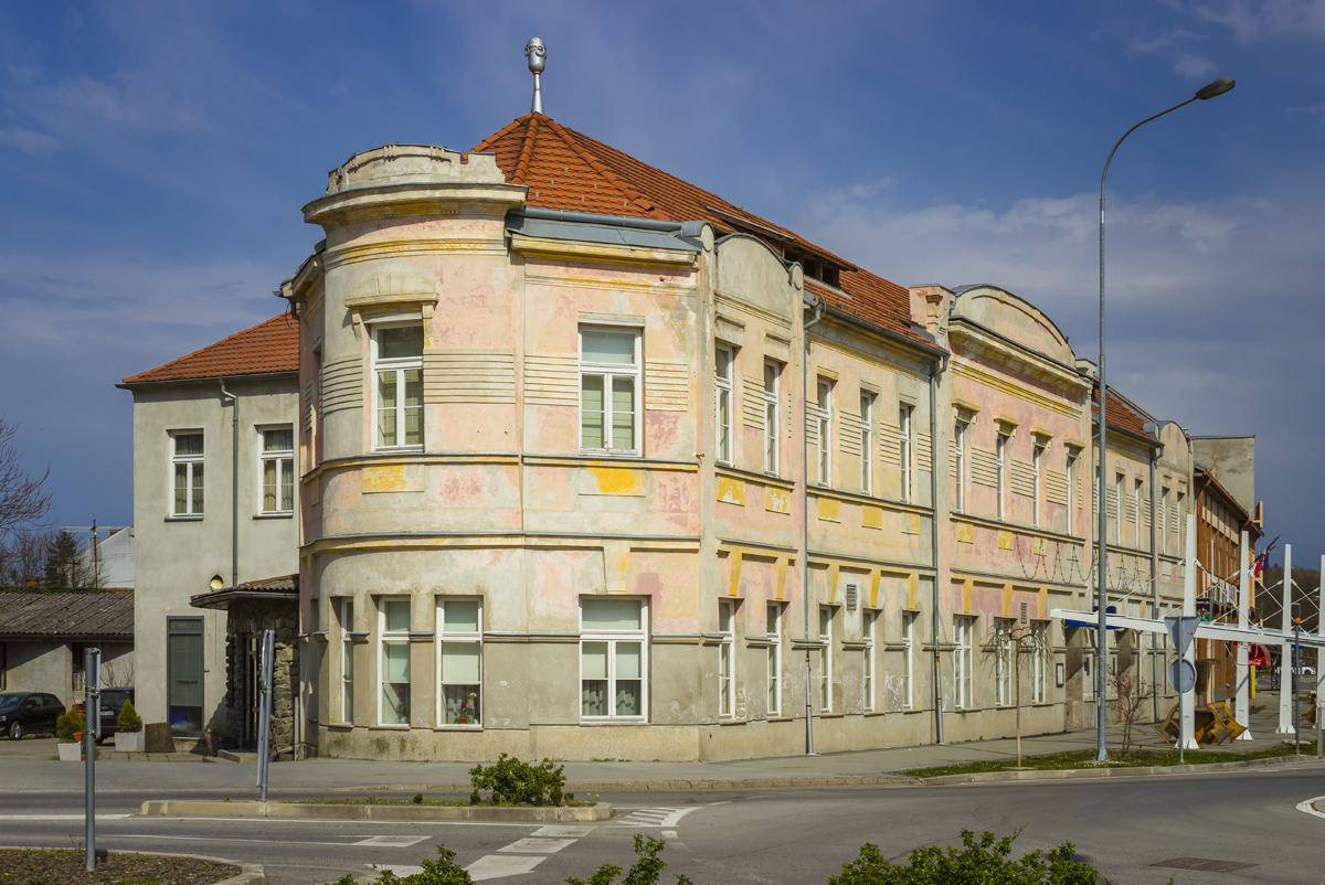 Orahovica